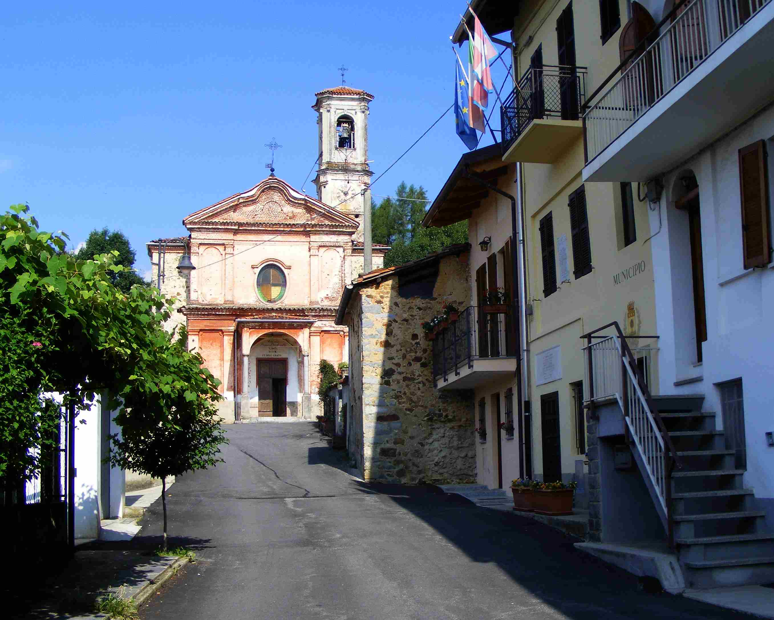 Selve Marcone (BI; Italy)